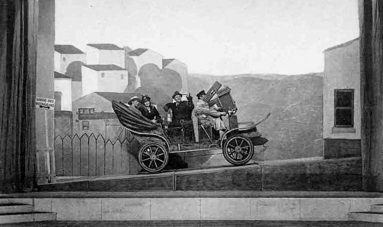 Knock ou le triomphe de la médecine, a play written by Jules Romains, at the Théâtre du Marais, Brussels.